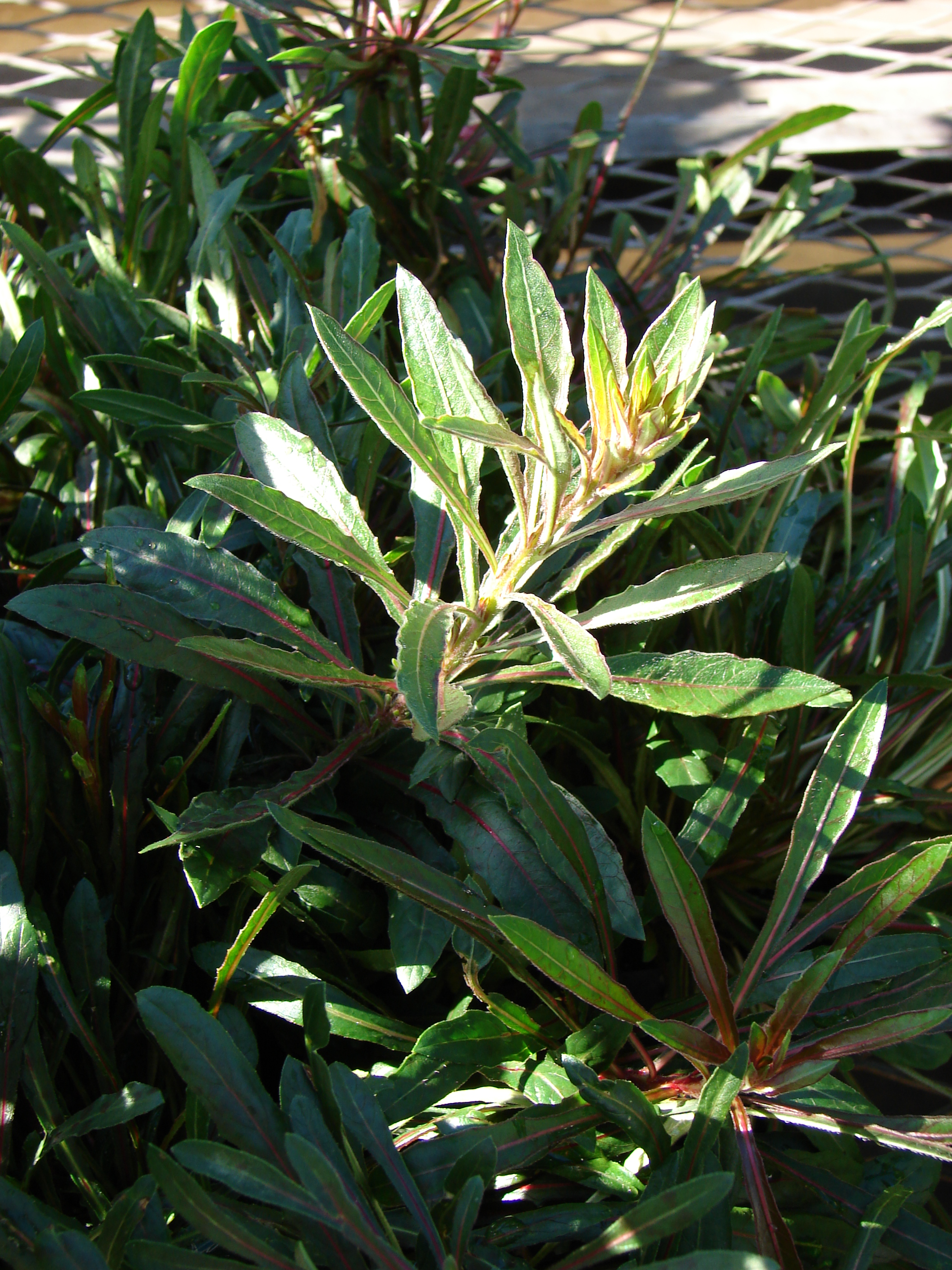 Gaura lindheimeri 'Siskiyou Pink' (leaves). Location: Maui, Lowes Garden Center Kahului.